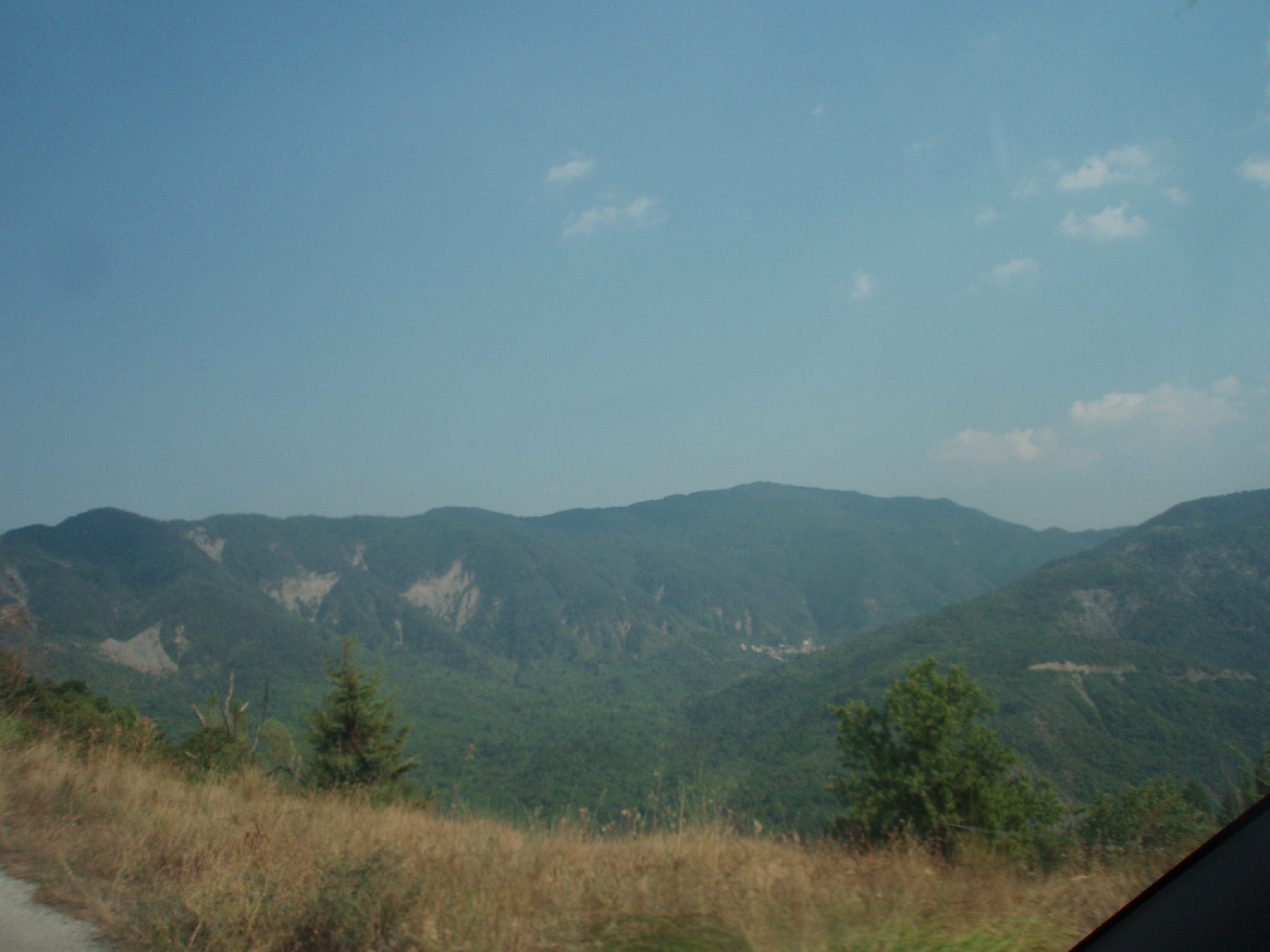 Smolikas mountain, Pindos mountain range, Epirus, Greece. View from north west (Pyrsogianni-Vourbiani road)